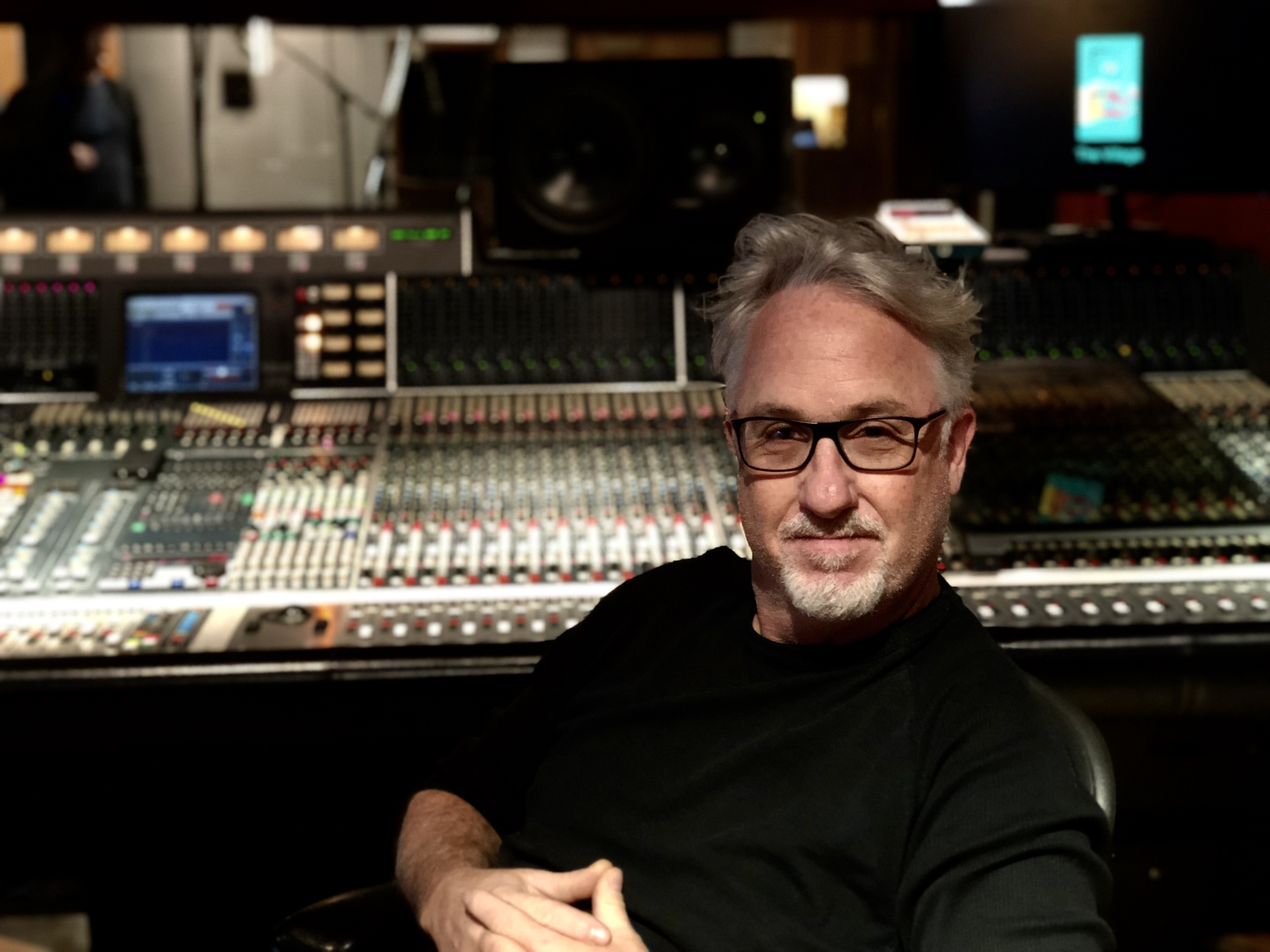 Alex Wurman, award-winning composer of "March of the Penguins," "Anchorman: The Legend of Ron Burgundy," "Talladega Nights: The Legend of Ricky Bobby," "Patriot," and "Perpetual Grace Ltd." sits at a mixing board in a Los Angeles recording studio